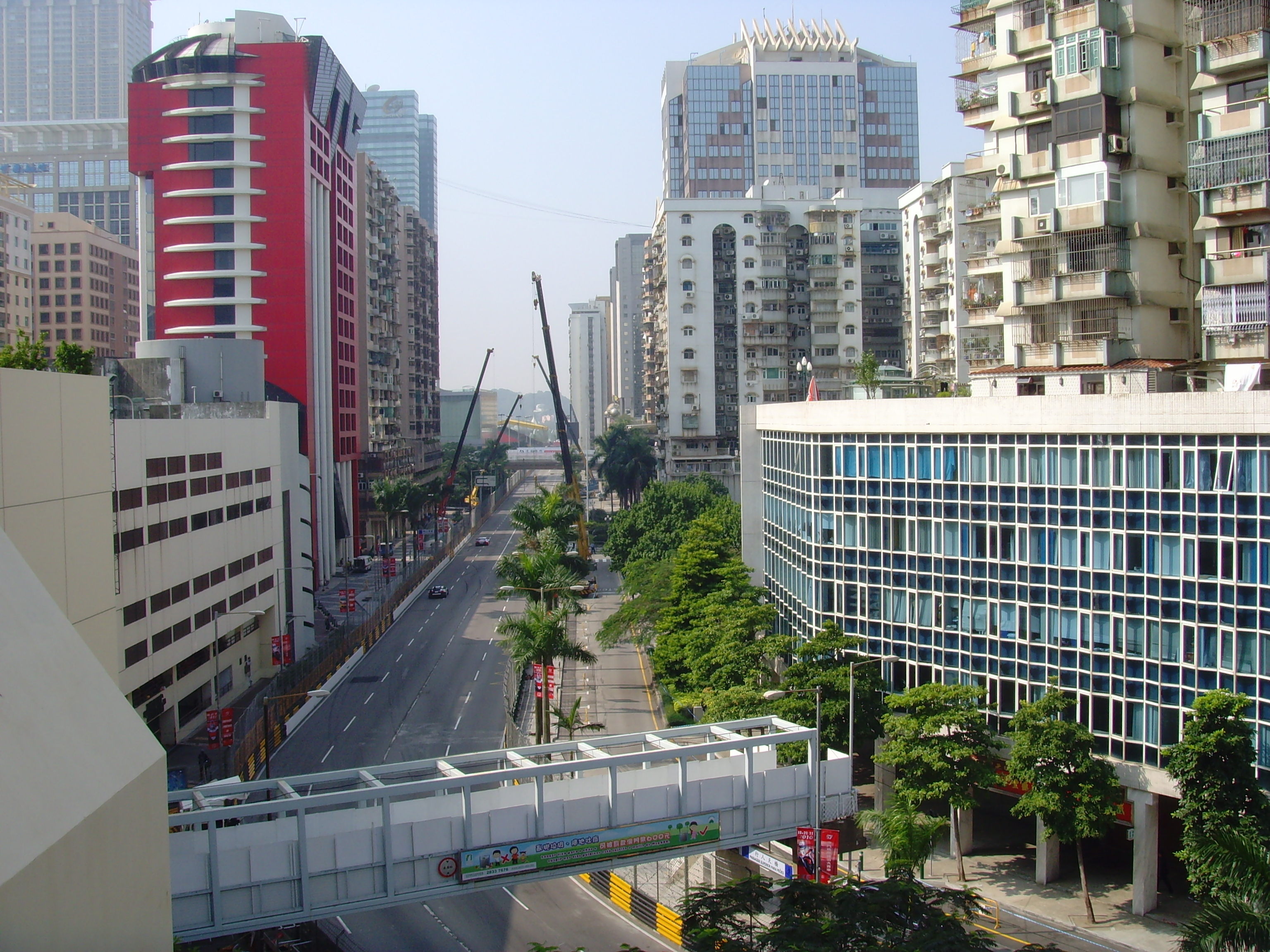 Guia Circuit (original portuguese: Circuito da Guia) - Mandarin Oriental Bend (foreground) and following straight to Lisboa Bend (background).